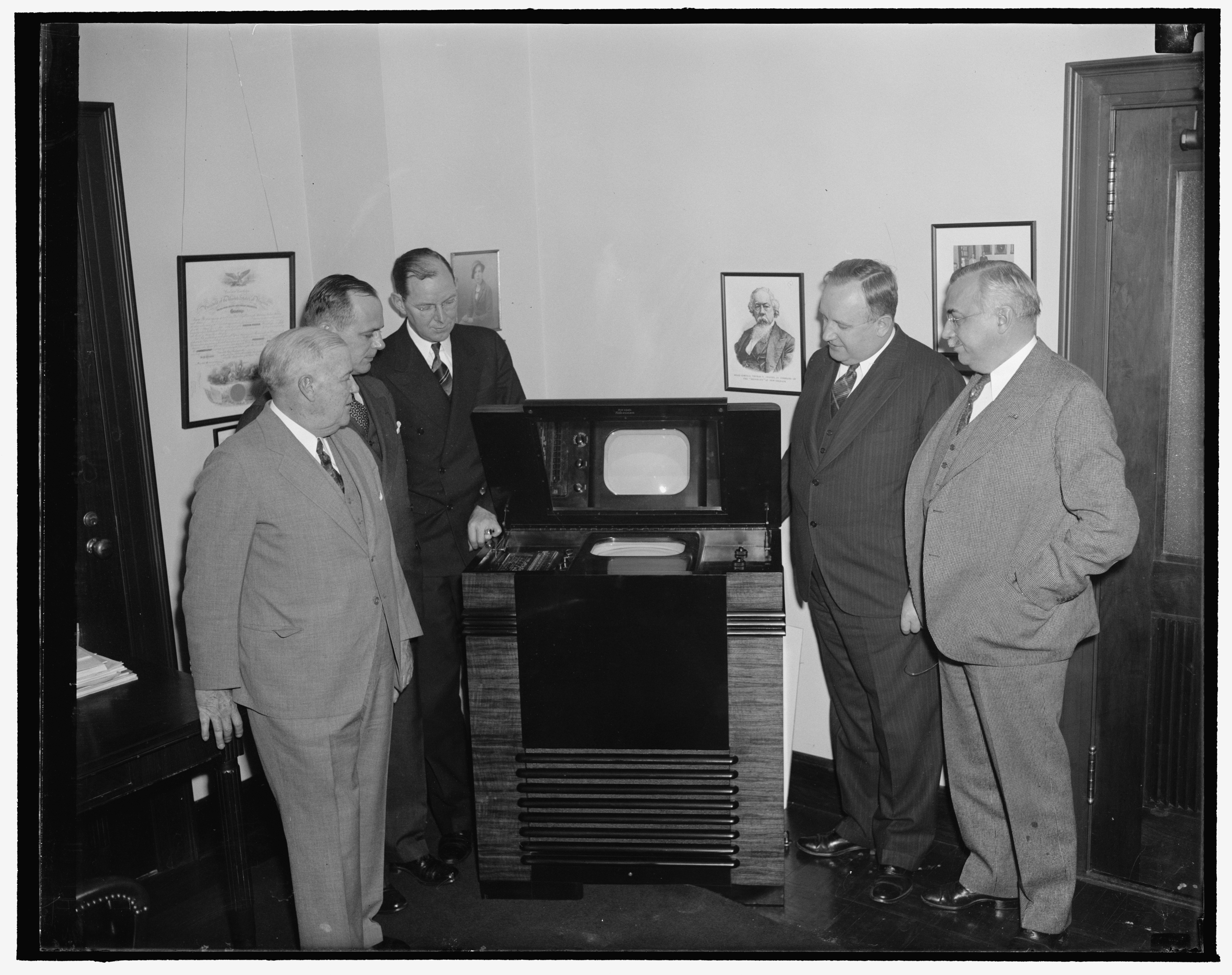 Federal Communications Commissioners inspect the latest in television, Washington, D.C., December 1, 1939. The first public demonstration of the new lightweight television equipment was given today before members of the Federal Communications Commission. The new equipment is portable and can be carried in a taxicab as compared to the huge cumbersome truck which has been used until now. The FCC is now considering new renovations for commercial television. Left to right: Commissioners Frederick I. Thompson, T.A.M. Craven, Chairman James L. Fly, Commissioners Thad H. Brown, and Norman S. Case.